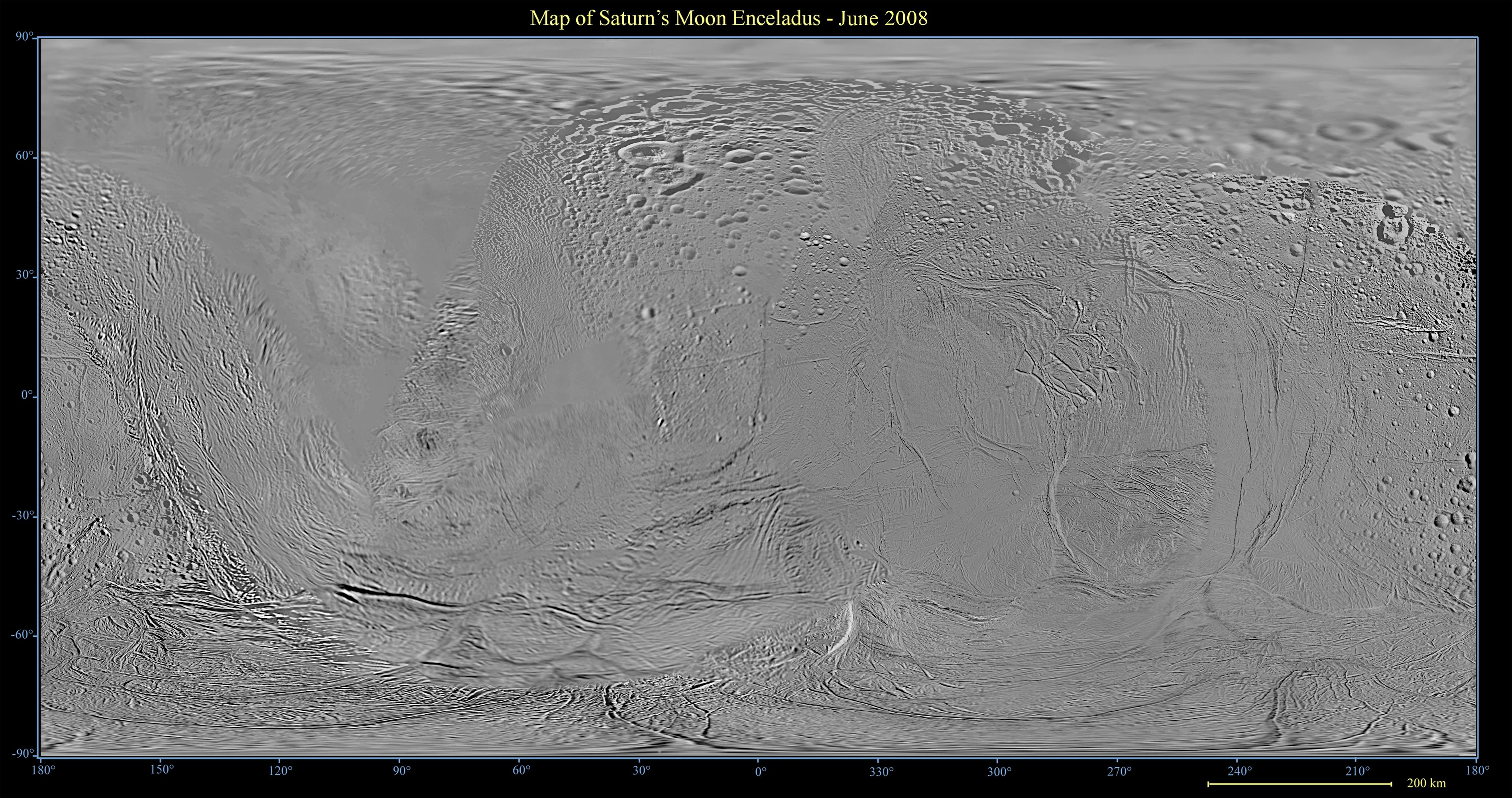 This global map of Saturn's moon Enceladus was created using images taken during Cassini spacecraft flybys, with Voyager images filling in the gaps in Cassini's coverage. The map is an equidistant (simple cylindrical) projection and has a scale of 440 meters (1,444 feet) per pixel at the equator. The mean radius of Enceladus used for projection of this map is 252 kilometers (157 miles). This mosaic map is an update to the version released in December 2006 (see PIA08342). The mosaic was shifted by 3.5 degrees to the west, compared to the previous version, to be consistent with the International Astronomical Union longitude definition for Enceladus.